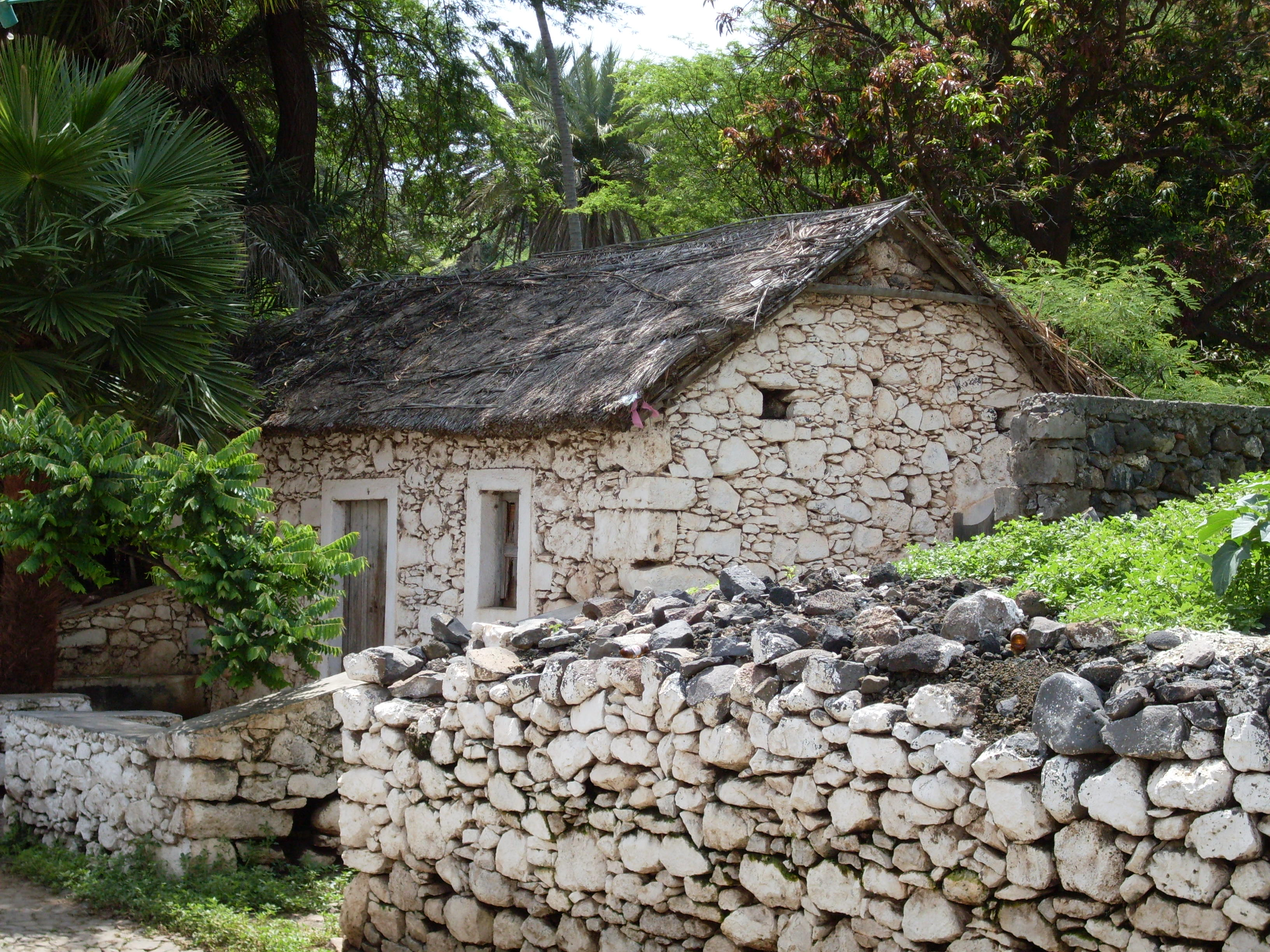 Traditional architecture house in Cidade Velha, Cape Verde